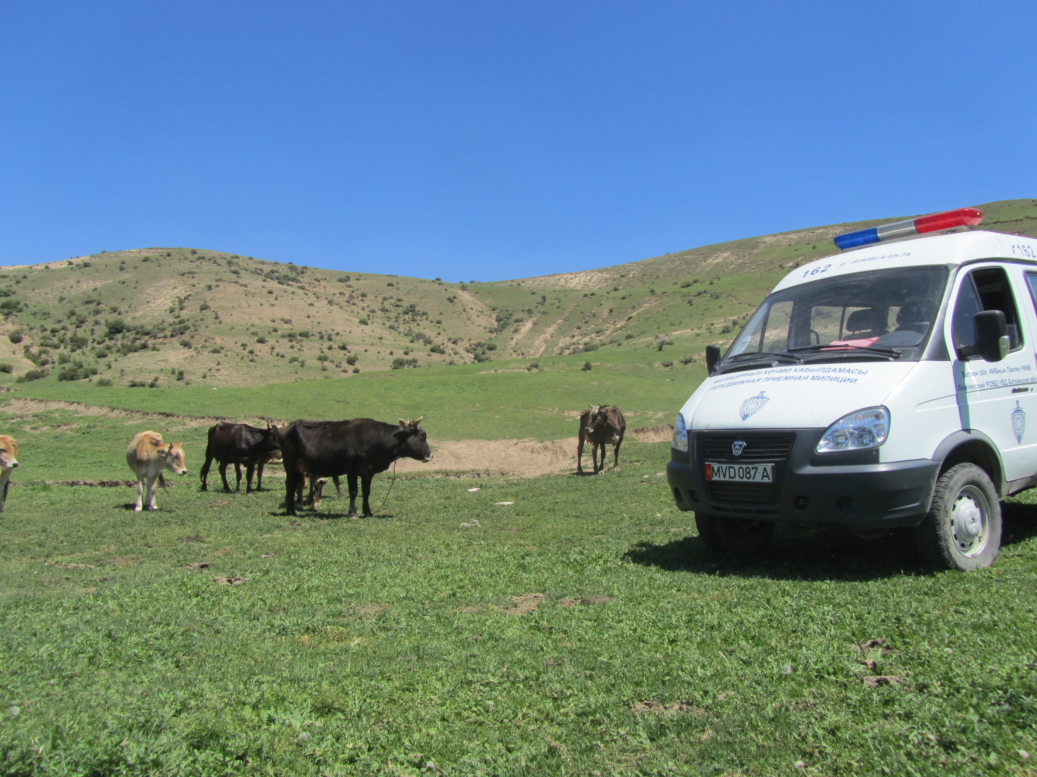 A mobile police reception in Leilek District. 18 such minivans with basic equipment needed for a mobile police reception were donated to the police of Kyrgyzstan by the Community Security Initiative, a project of the OSCE Centre in Bishkek.